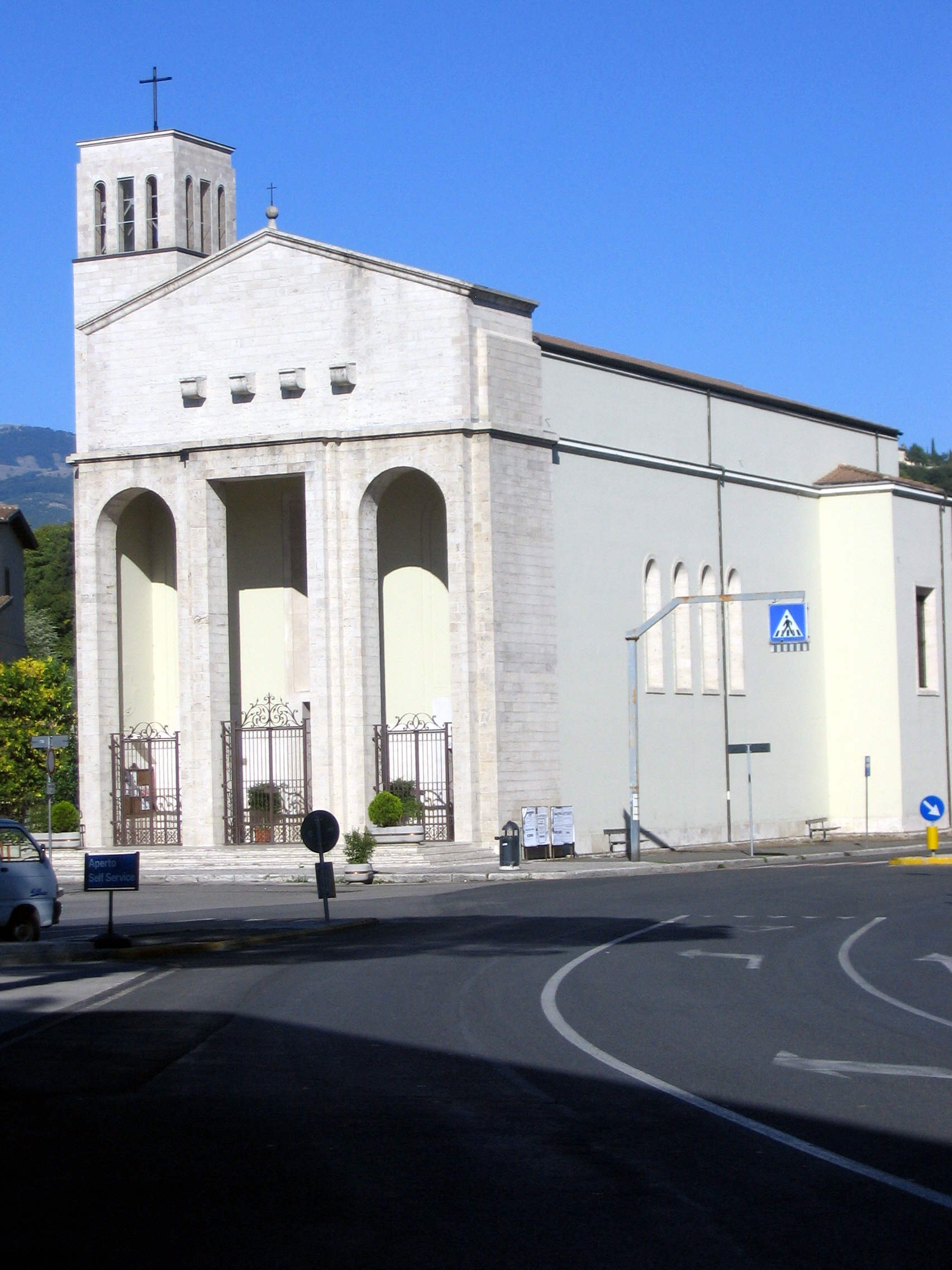 Church - Rieti, Lazio, Italia